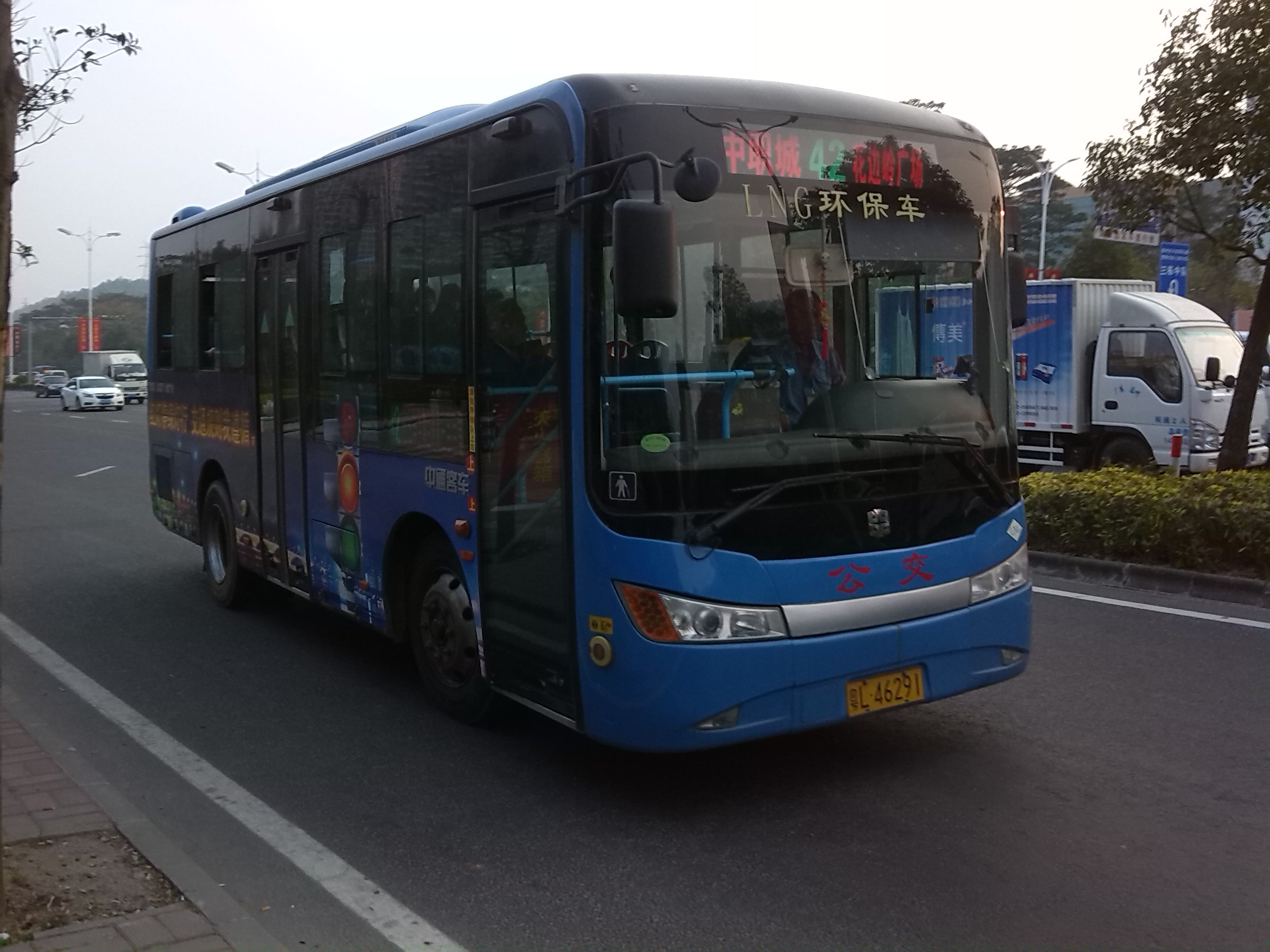 A Zhongtong LCK6820HGC bus which is powered by liquid natural gas and enlisting on Huizhou City Bus Corporation Route 42. The plate number of this bus is "粤L•46291" . The photo was taken at the bus stop of Huizhou University, which is now called as the bus stop of Huakang Hospital. The bus is now enlisting on Route 46.